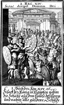 Egyptians looting of Jerusalem